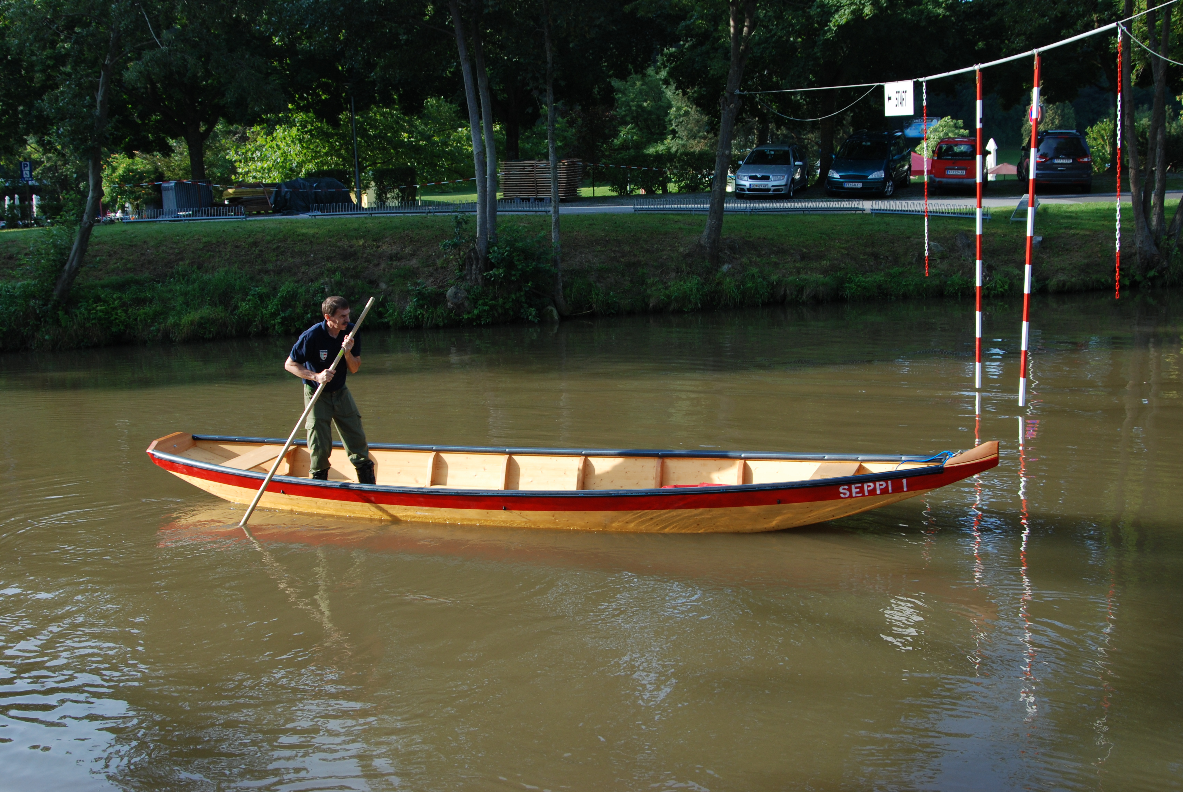 Zille